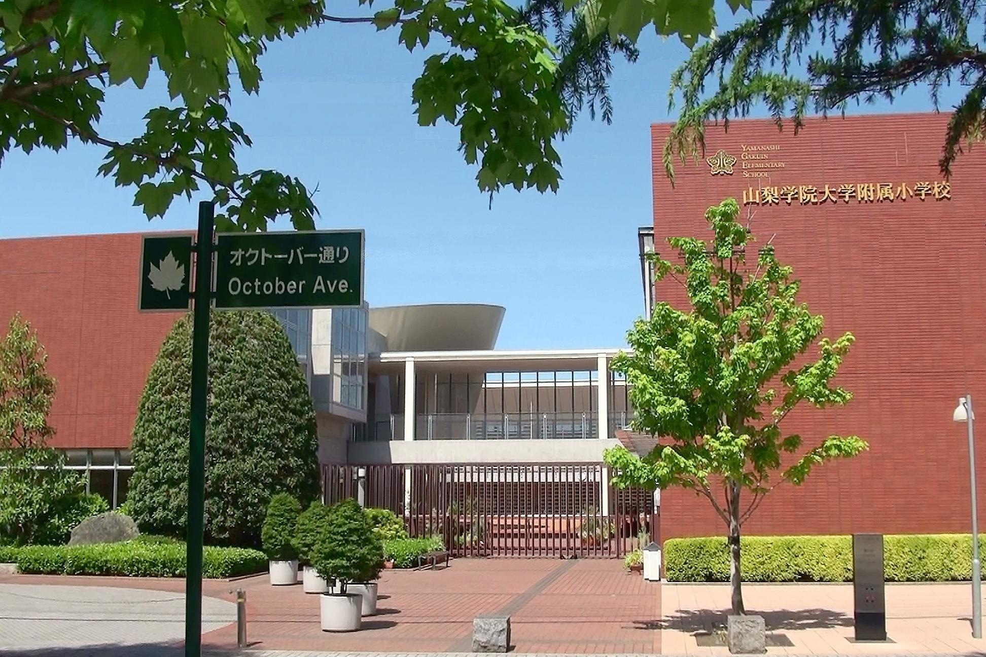 Yamanashigakuin elementary school front MAY2010